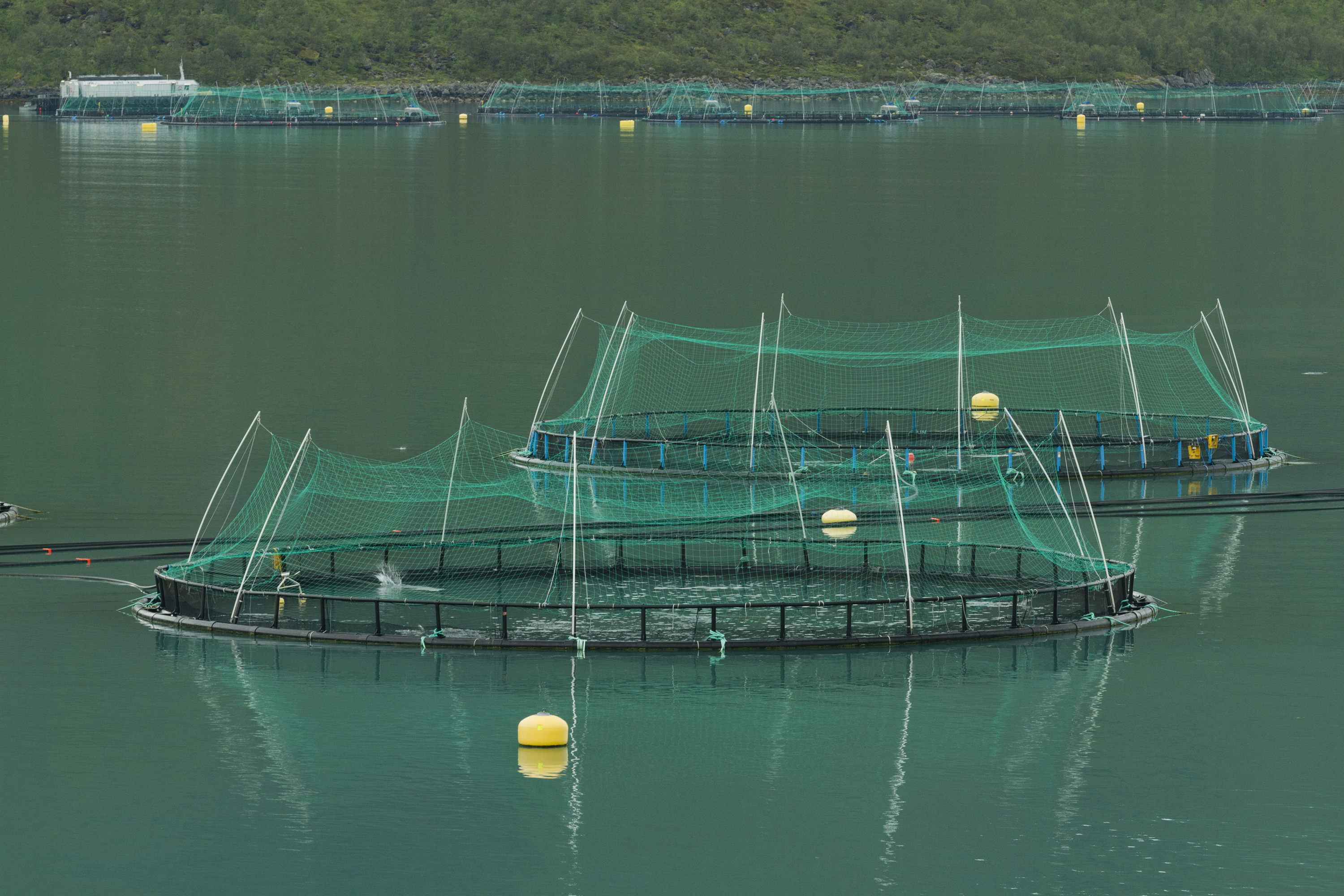 Salmon farming cages in Torskefjorden, Torsken, Senja, Troms, Norway in 2014 August.